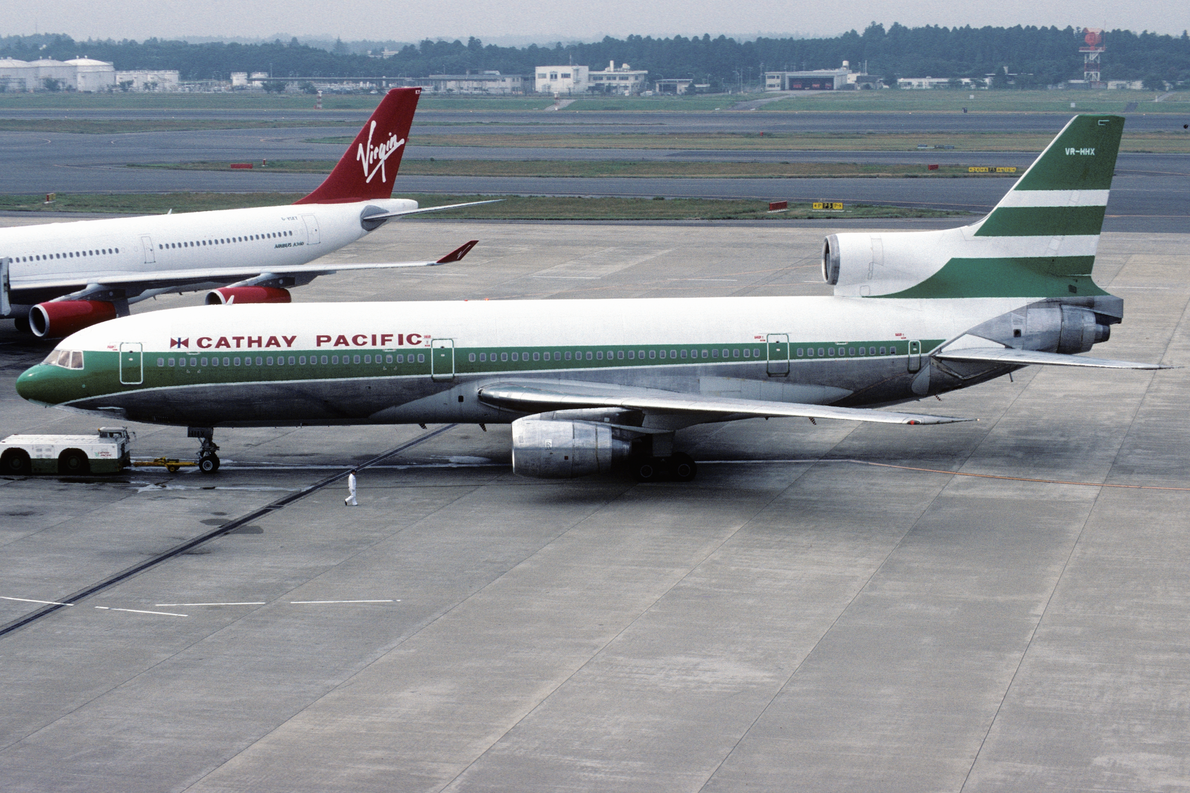 OLD Photo...